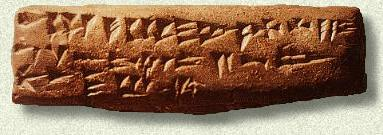 the picture depicting the ugarit alphabet , self-scan of Old syrian post-card dated in 1985